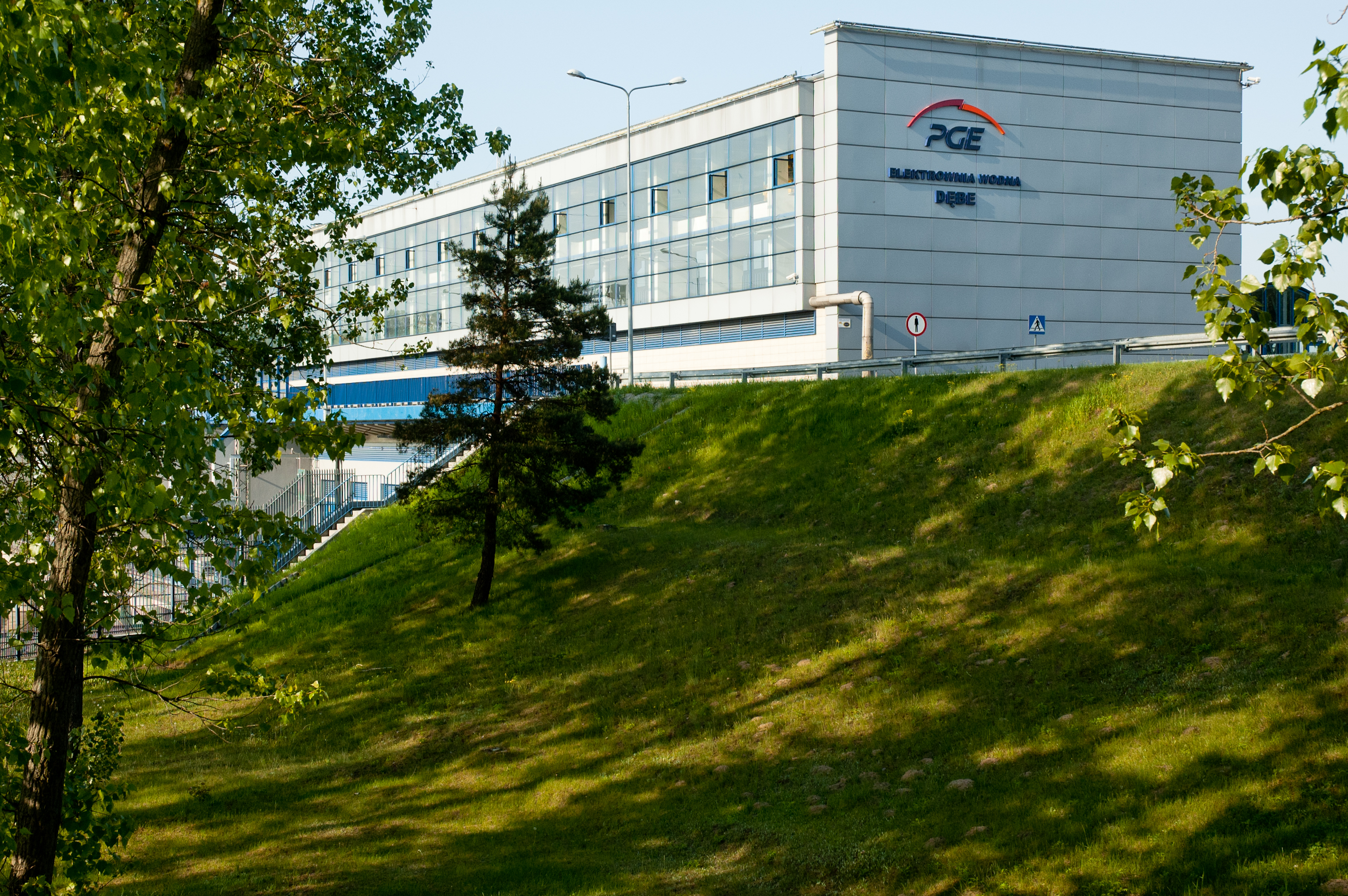 Hydro power plant in Dębe, Legionowo County, Poland